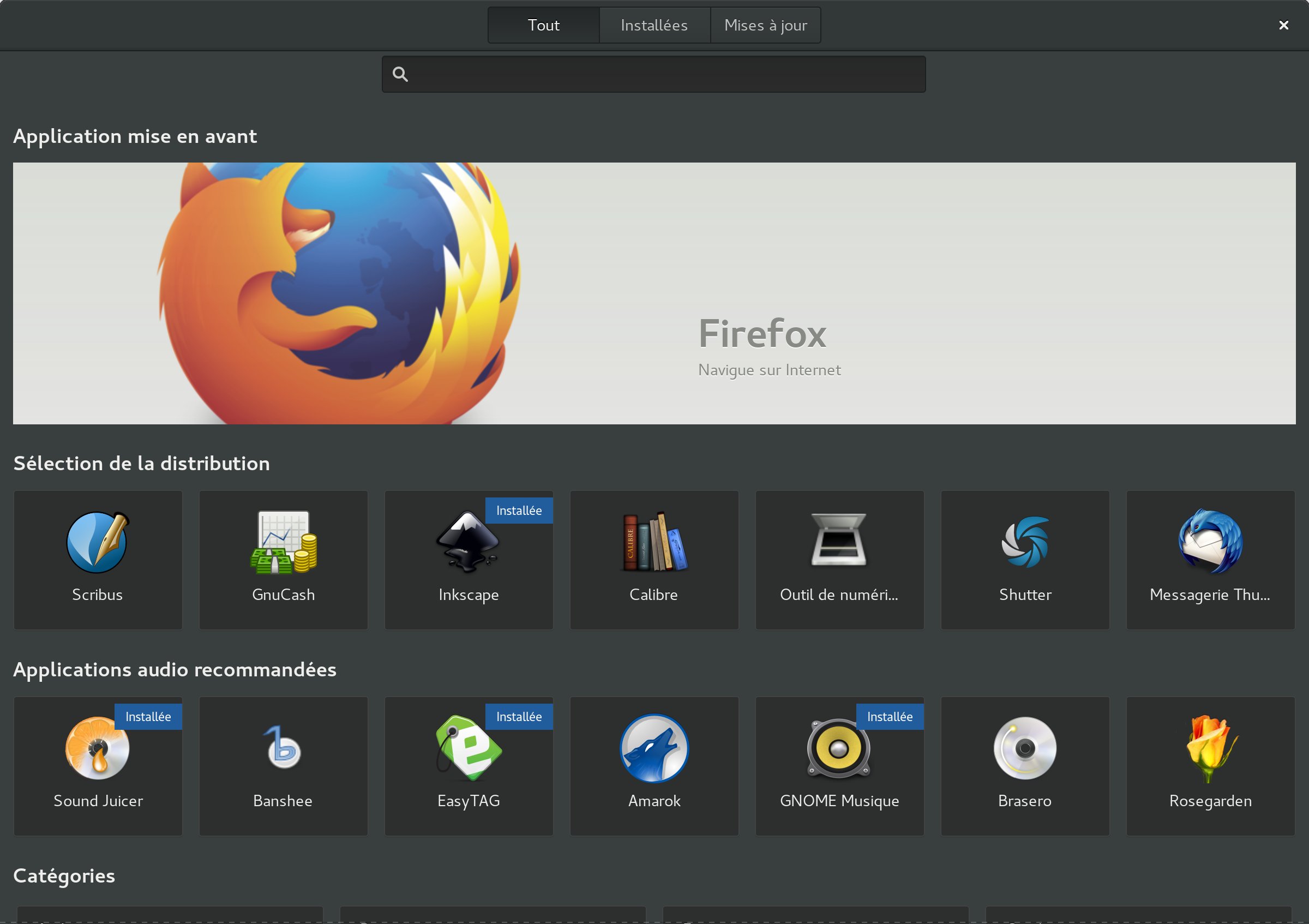 Screenshot of GNOME Software 3.20 in french.